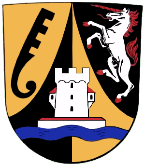 Coat of arms of Bachhagel, Dillingen, Swabia, Bavaria, Germany.